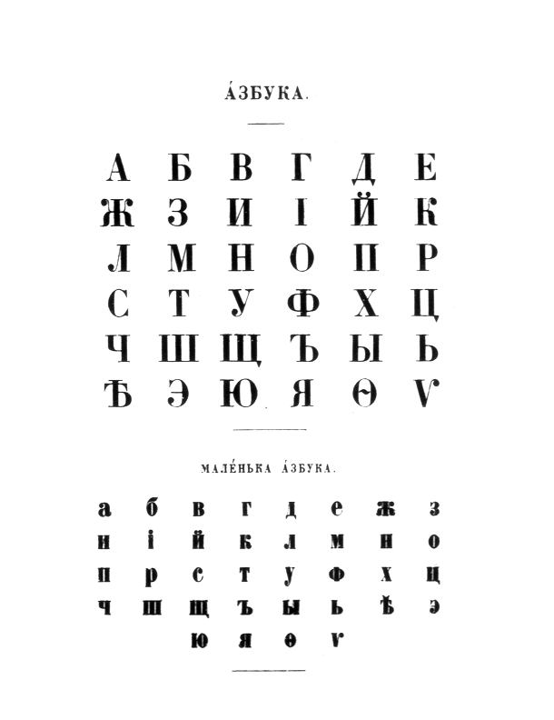 Suggested alphabet to teachers in Little Russia 1857